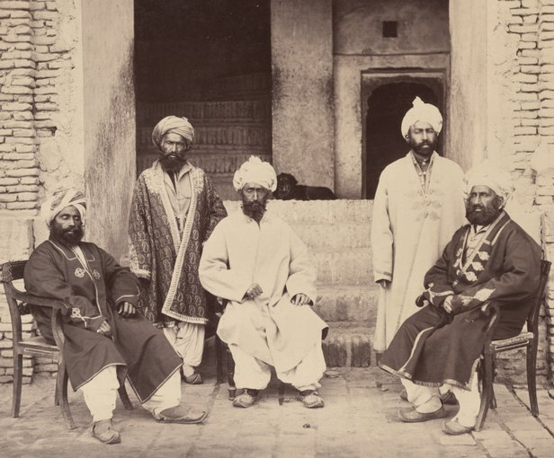 A five-member group of Parsiwans posing for a photo in the courtyard of a government palace (known then as Wali Sher Ali Khan's Zenana) in Kandahar, Afghanistan. The man partially shown standing on the left appears to be a guard, and there's a dog sitting at the top of the steps in the background.